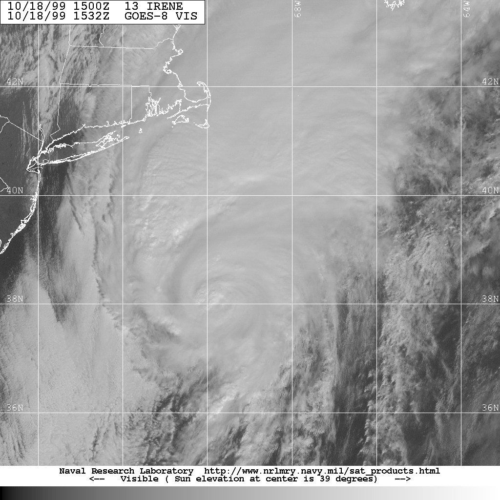 Hurricane Irene off the coast of Virginia on October 17, 1999